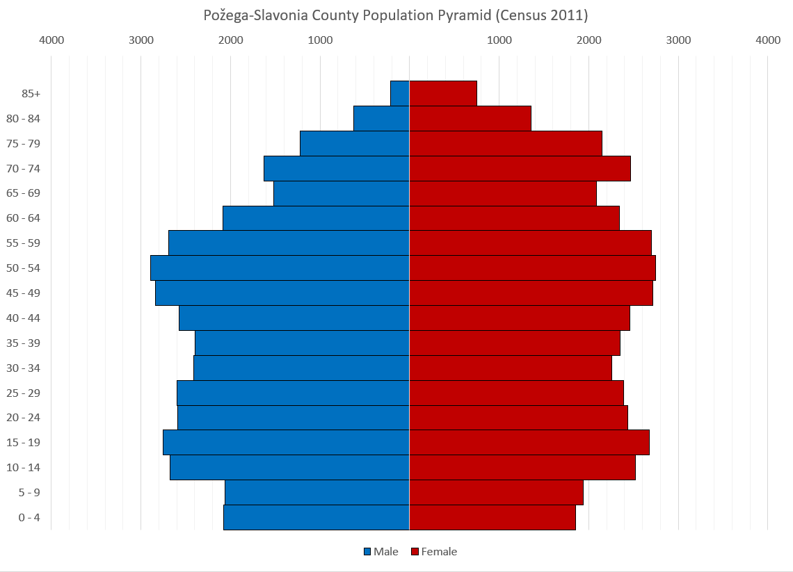 Population pyramid of Požega-Slavonia County. Version in English. Data from 2011 Census; available at